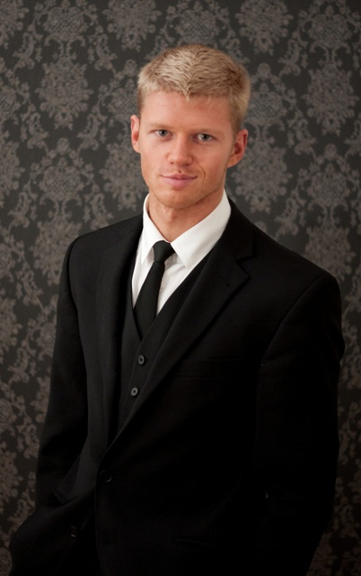 Roberto Lorenz 2011